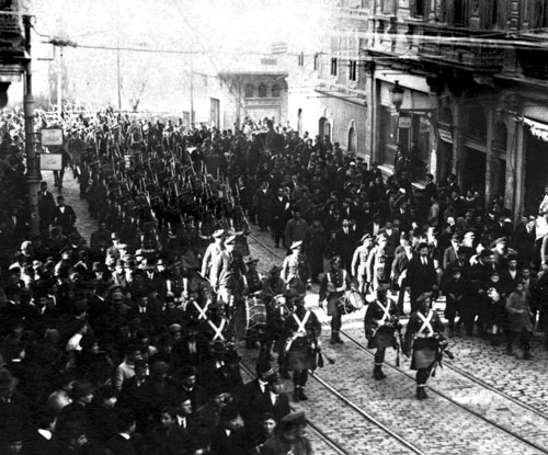 British occupation troops marching in Beyoglu